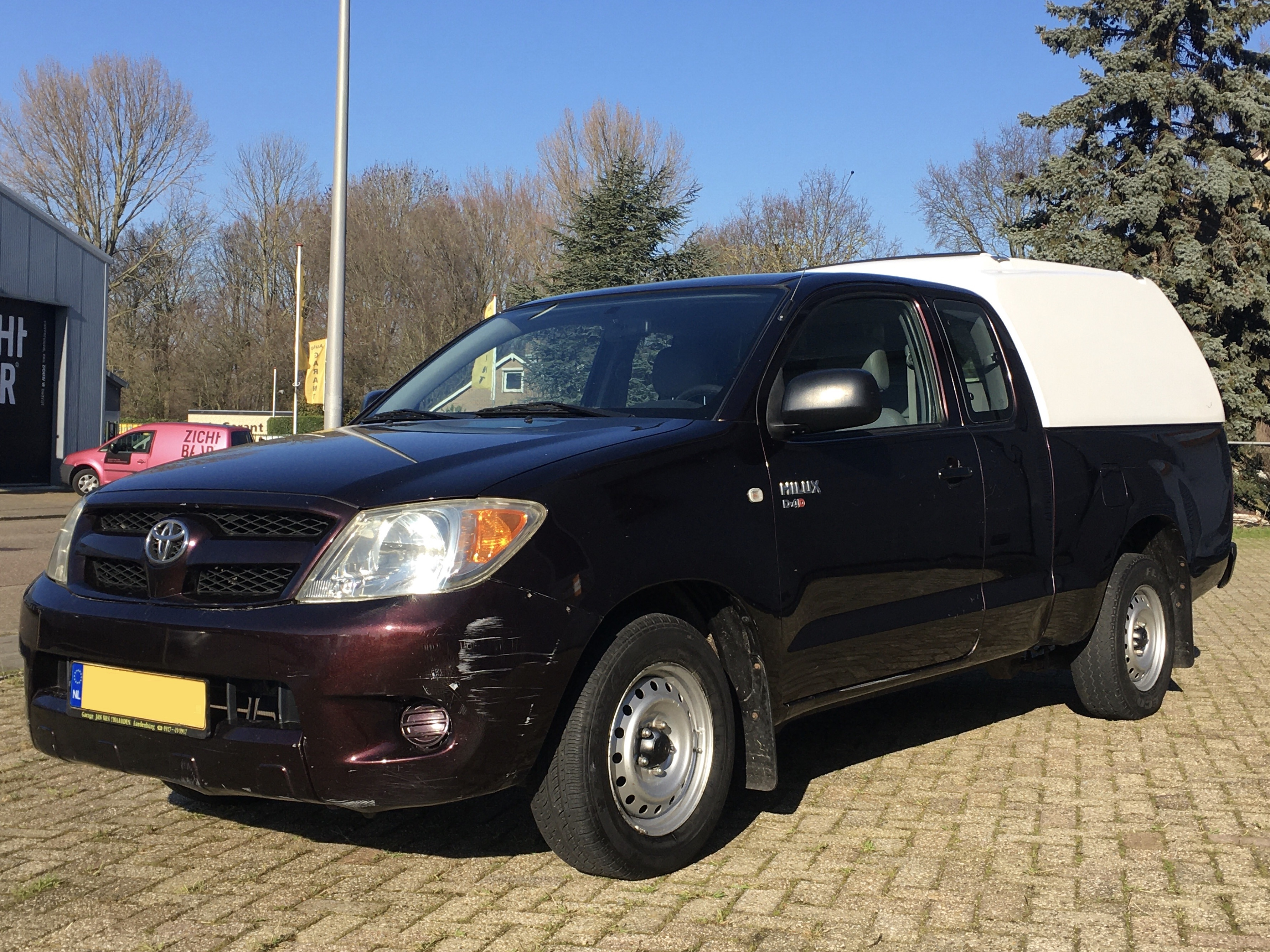 2006 Toyota Hilux XC 2.5 D-4D Business (KUN15L-CRMDYW) MR0ES12G80*******